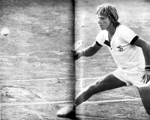 Swedish tennis player, Bjorn Borg